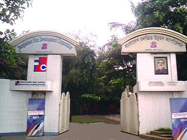 Bangladesh Film Development Corporation (BFDC)- Main gate 2011, in Dhaka.